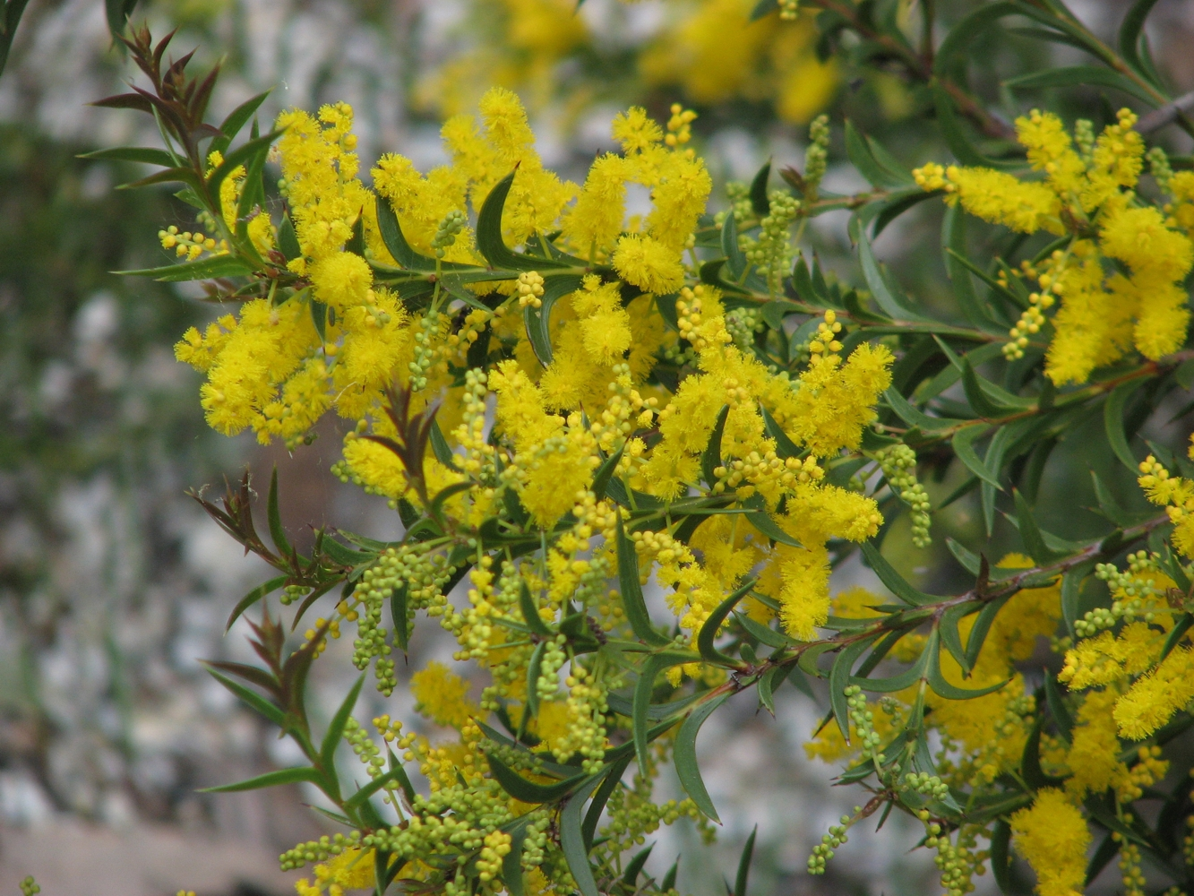 Acacia triptera (cultivated, labelled) Maranoa Gardens, Balwyn, Victoria, Australia